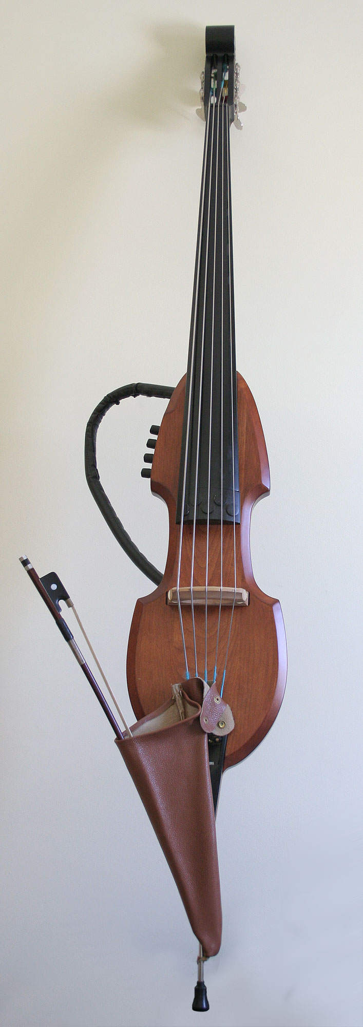 Aria SWB 02/5 upright bass. Taken by 'dinobass' 3 december 2006.